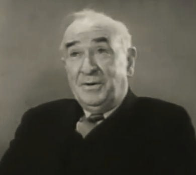 Frank Sheridan in The Little Red Schoolhouse (1936) - cropped screenshot